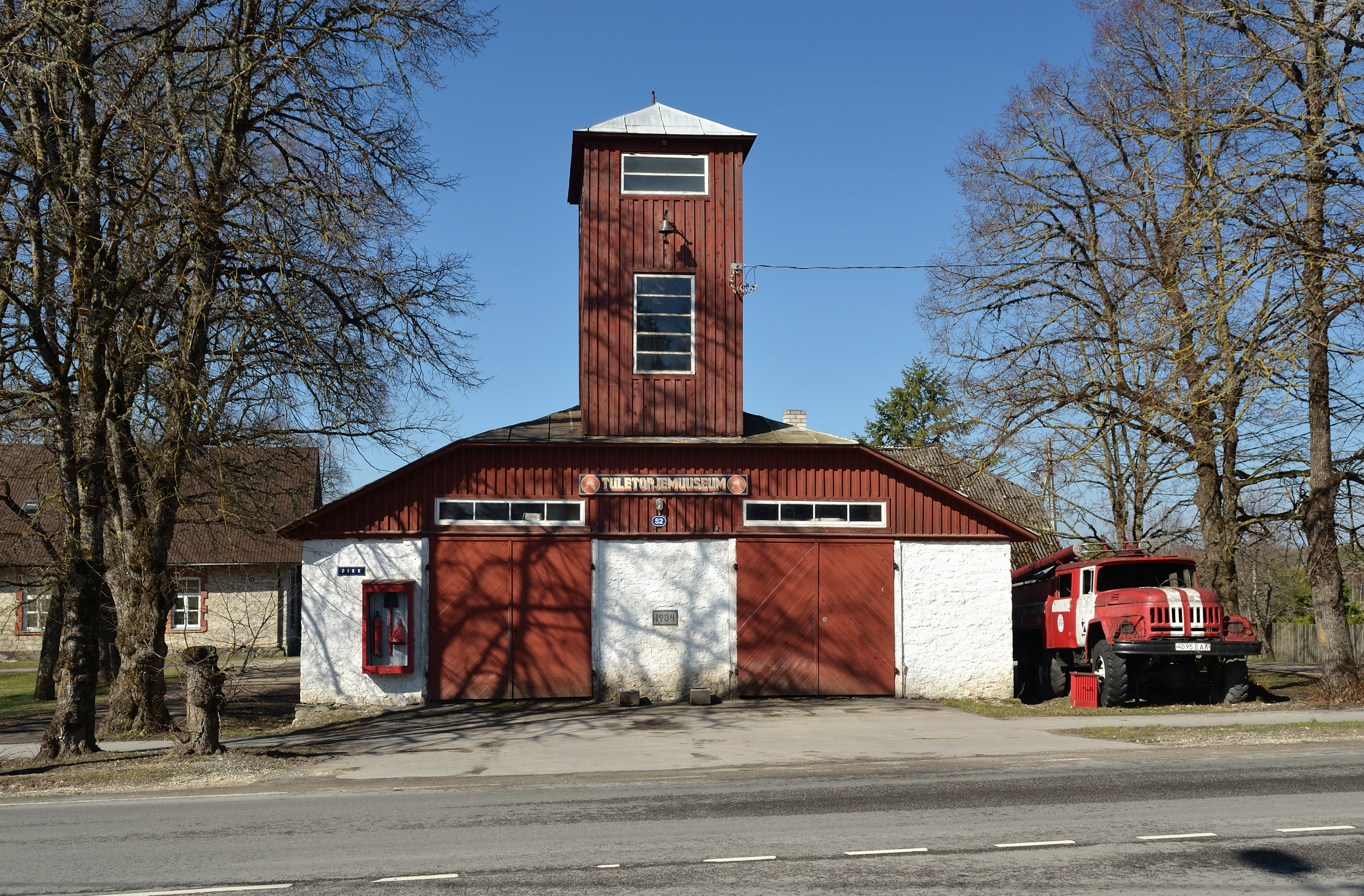 Järva-Jaani fire station museum